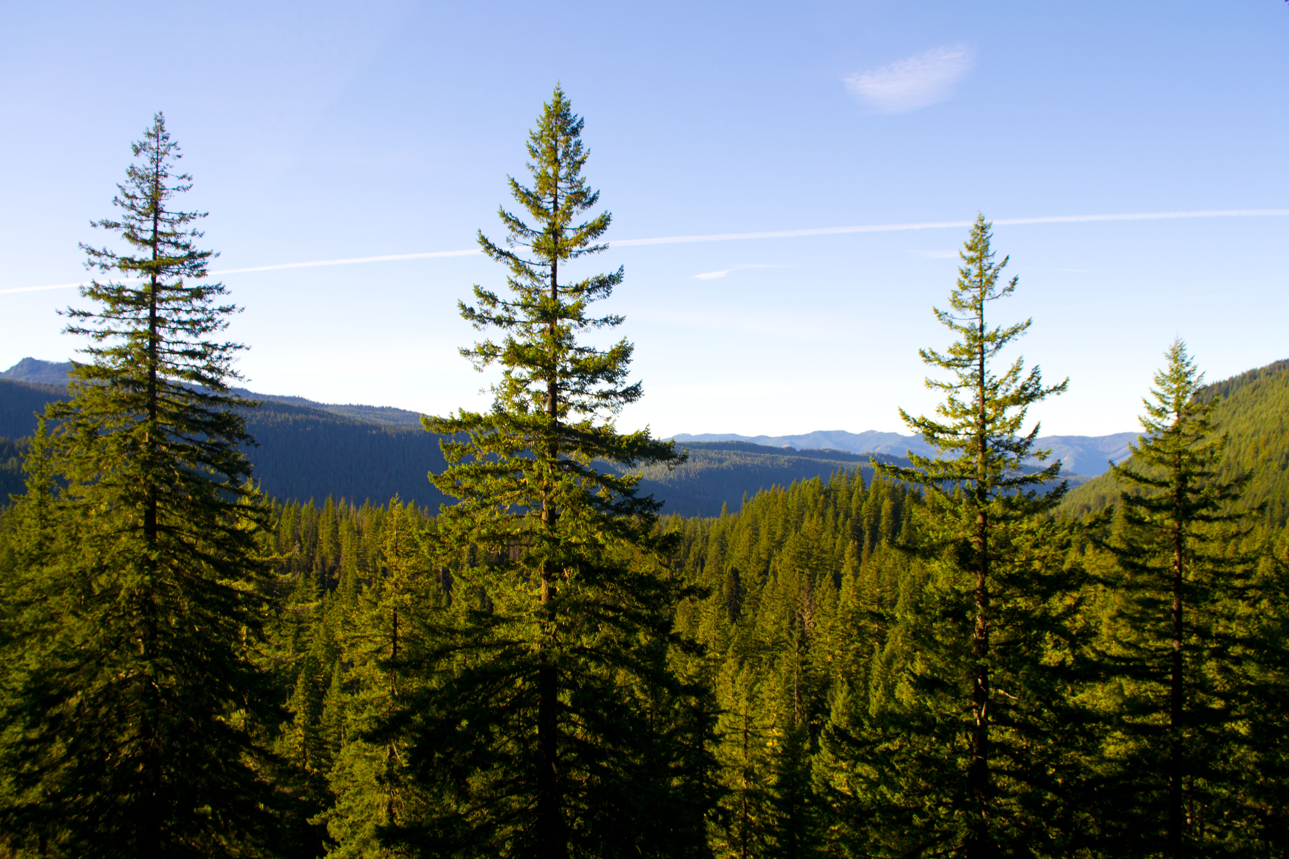 Scenic Vista near Oregon Route 242